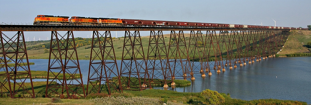 BNSF train crosses a bridge over Lake Ashtabula on the Sheyenne River west of Luverne, North Dakota.